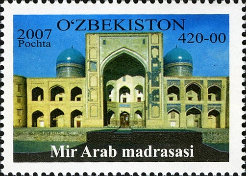 Stamps of Uzbekistan, 2007